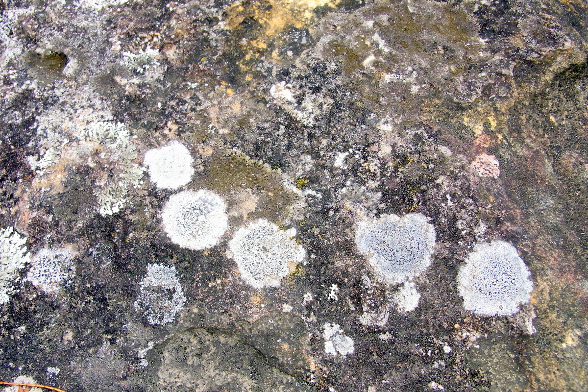 Sedimentary Rock Mt Ku-ring-gai NSW, Australia. Elevation 206 metres, fine grained sandstone, most likely Mittagong Formation (with lichens)